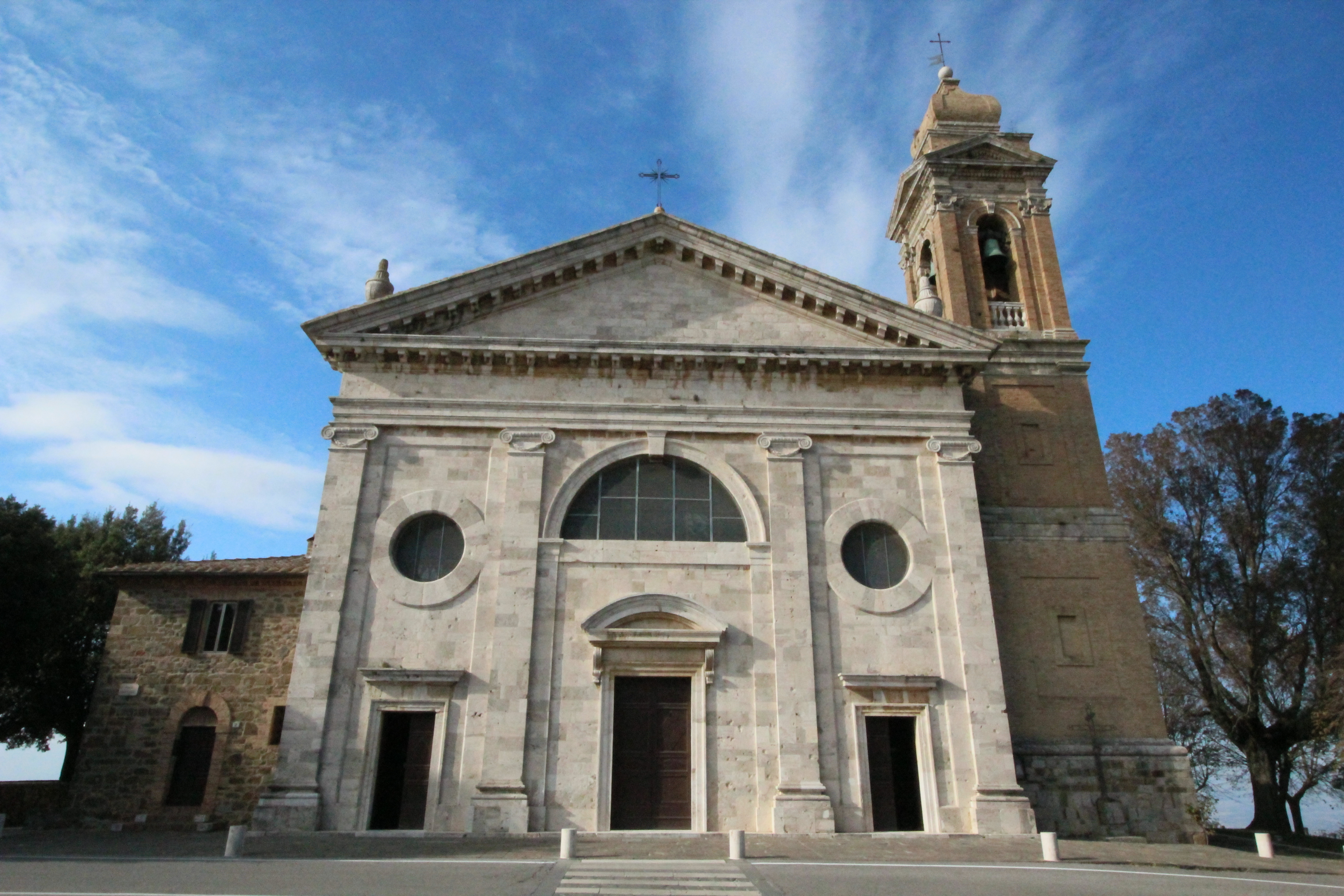 Church Madonna del Soccorso in Montalcino, Val d’Orcia, Province of Siena, Tuscany, Italy